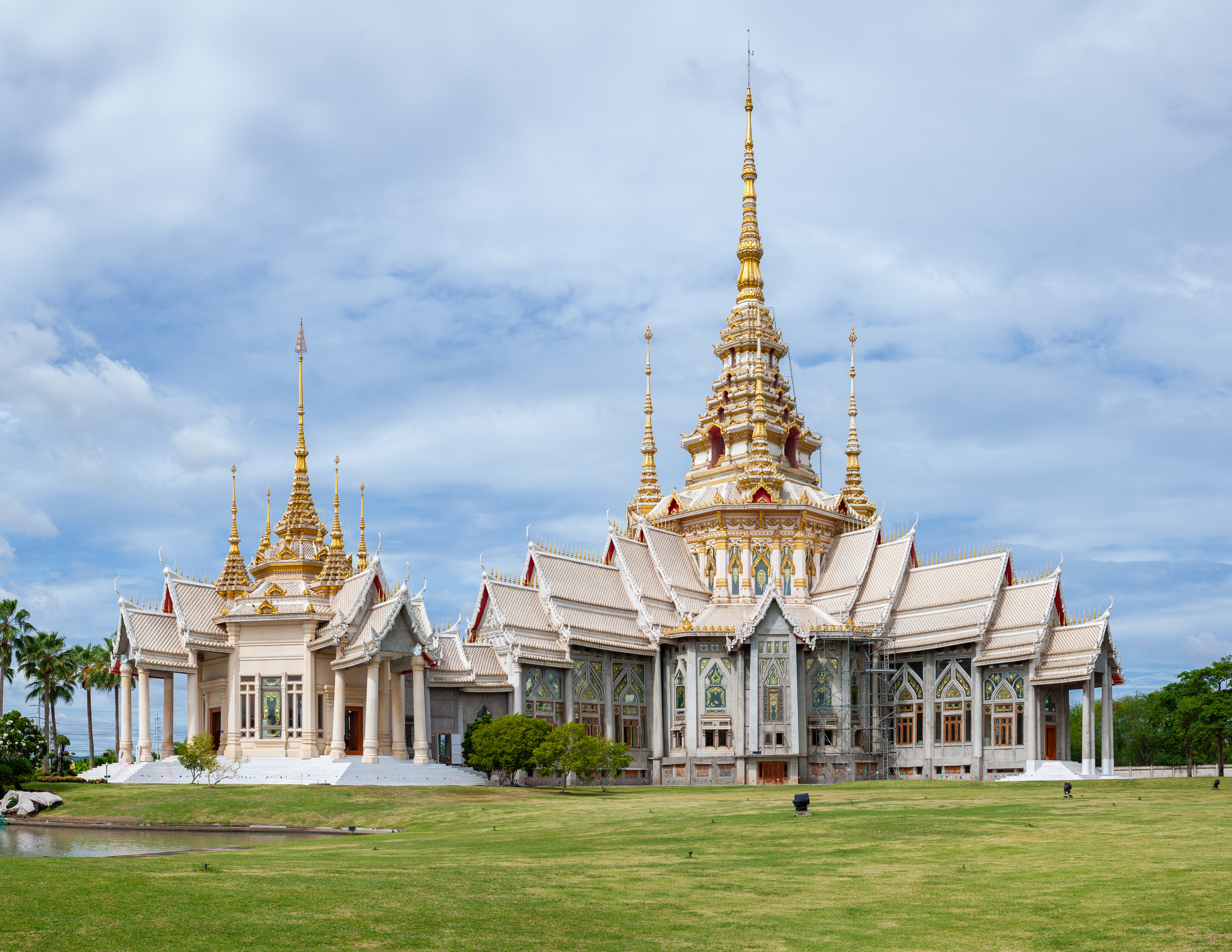 Wat Non Kum or Wihan Luang Phor Toe at Sikhio District, Nakhon Ratchasima Province, Thailand.